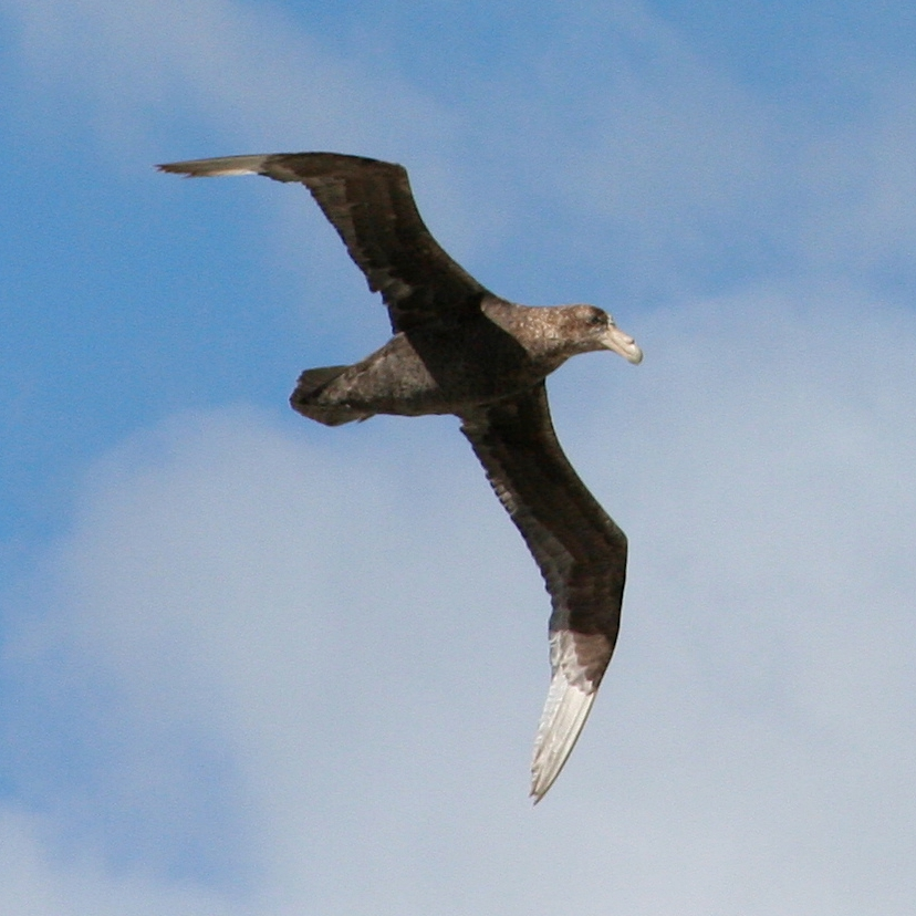 Southern Giant Petrel flying over Bertha's Beach, near Mare Harbour, East Falkland.